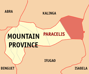 Map of Mountain Province showing the location of Paracelis